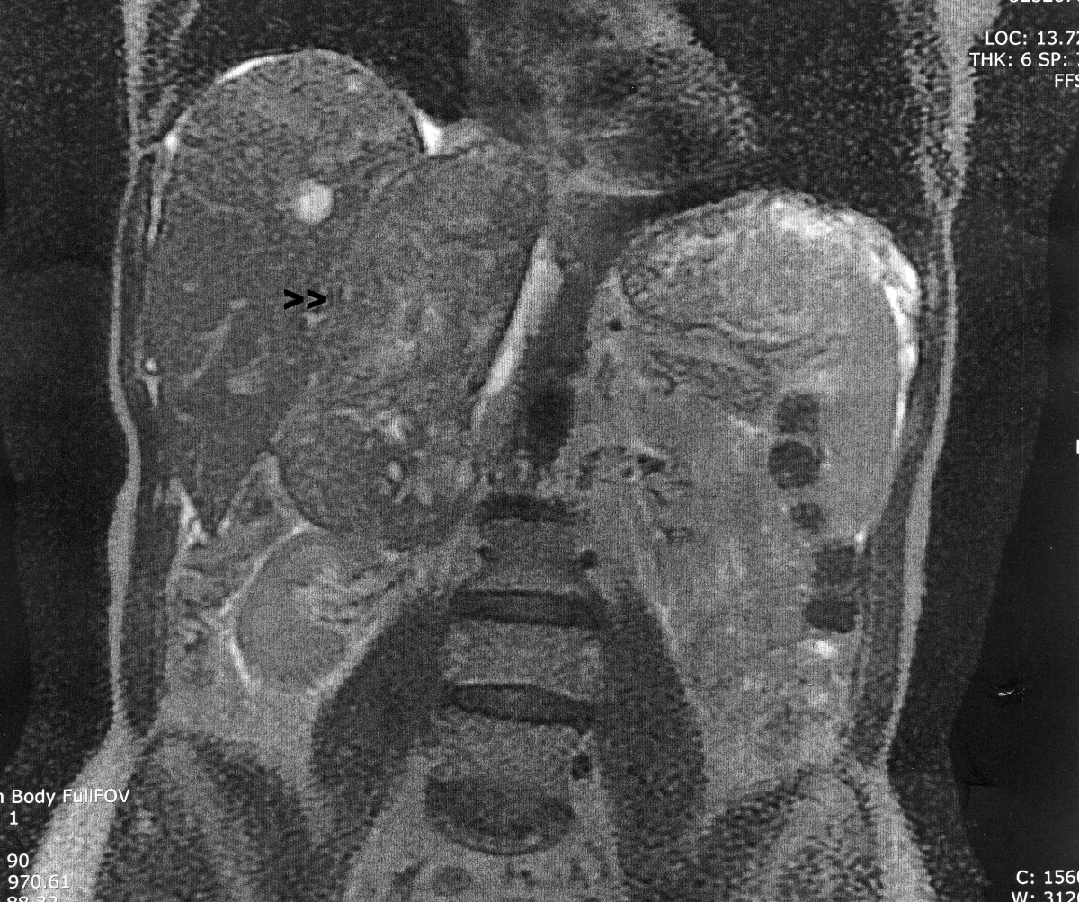 Coronal view of abdominal MRI. Tumor (arrow) extends from the superior pole of the right kidney to the right atrium. Wang et al. World Journal of Surgical Oncology 2007 5:109